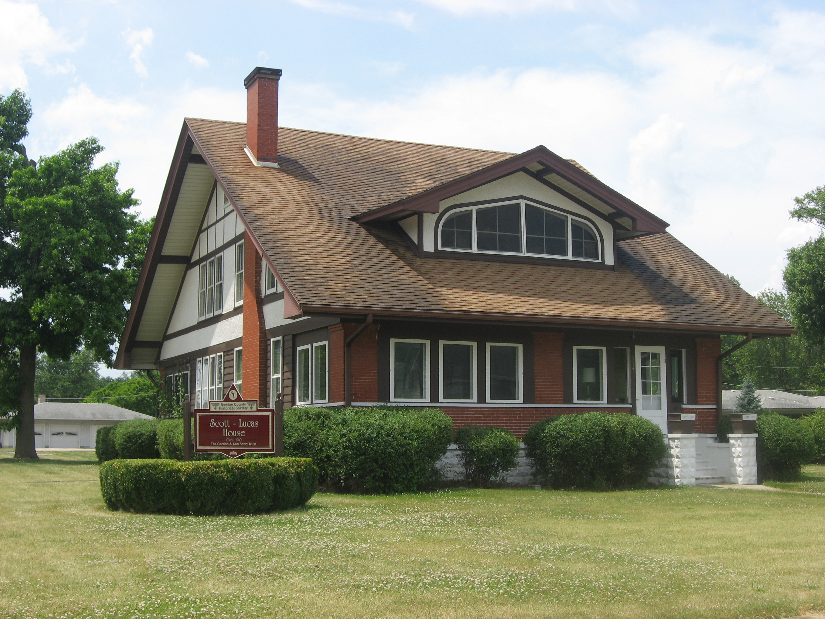 Front and southern side of the Scott-Lucas House, located at 514 S. Main Street in Morocco, Indiana, United States. Built in 1912, it is listed on the National Register of Historic Places.